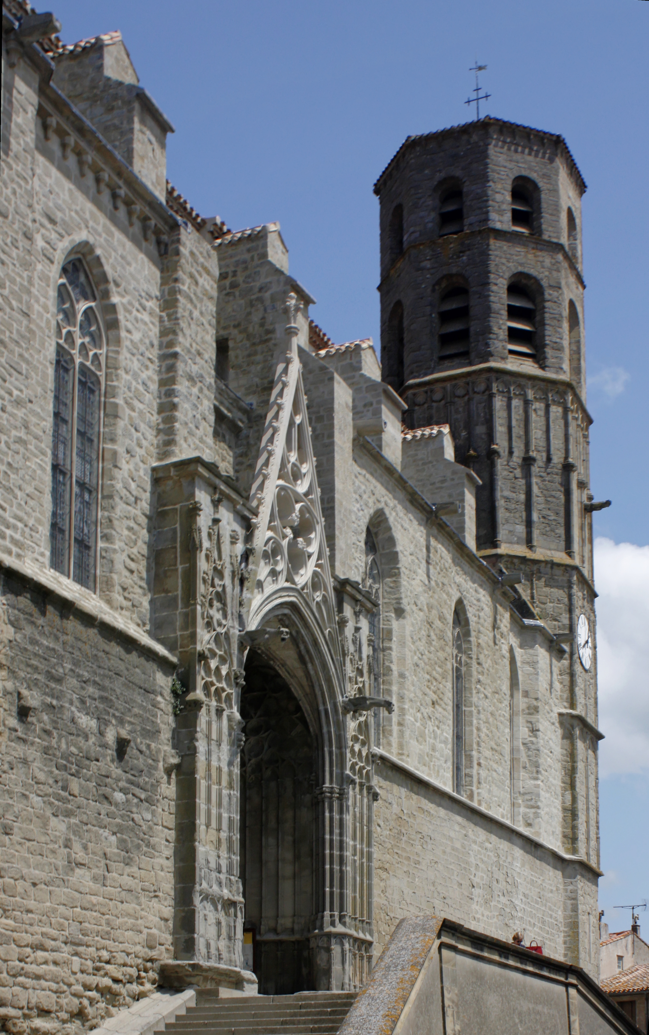 The entrance to the church is through the South porch. Finely carved, atop a staircase overlooking the Place St. Vincent (crowded with cars ...)